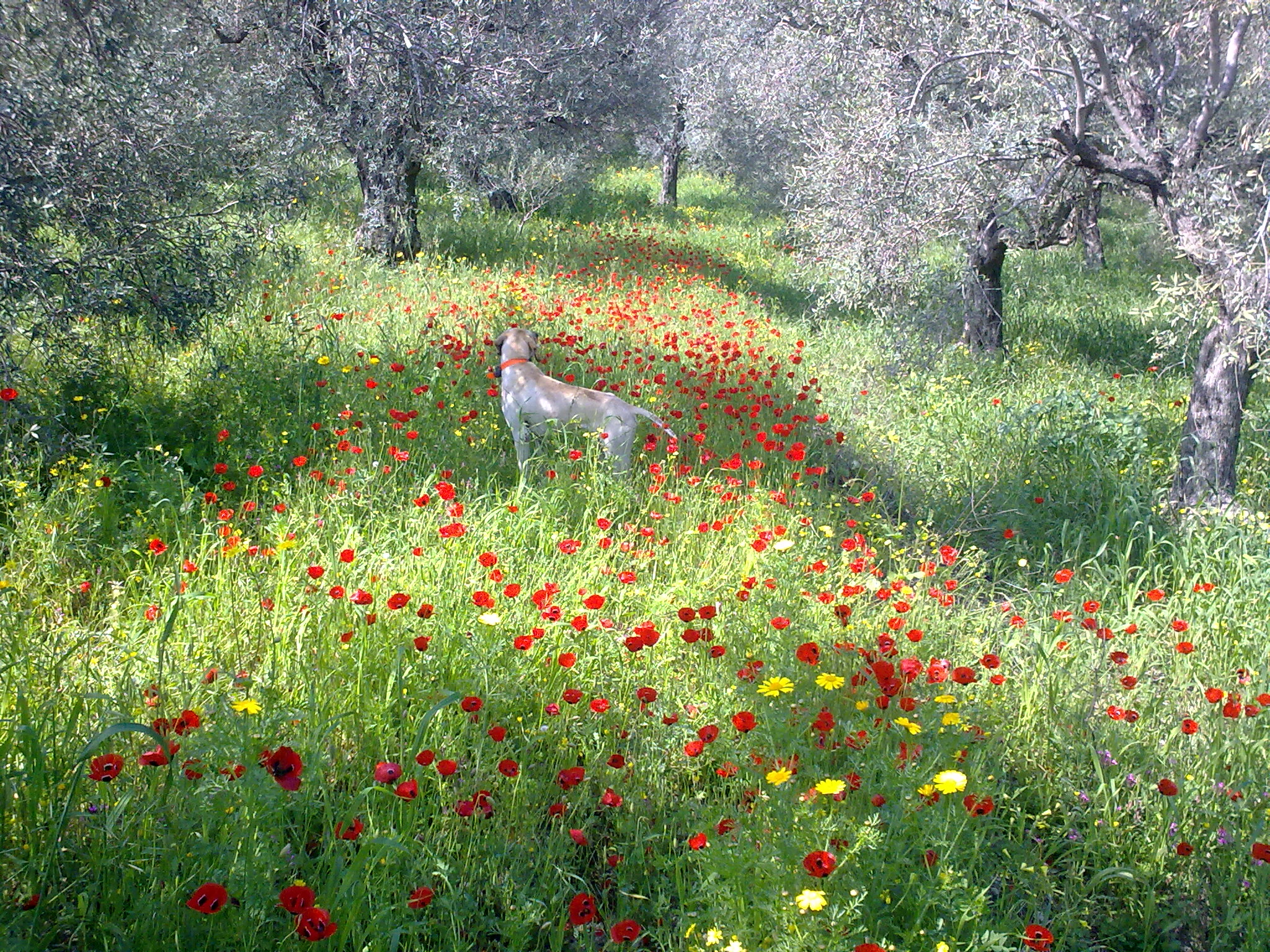 Spring in Mieh Mieh village with an English pointer in the background.